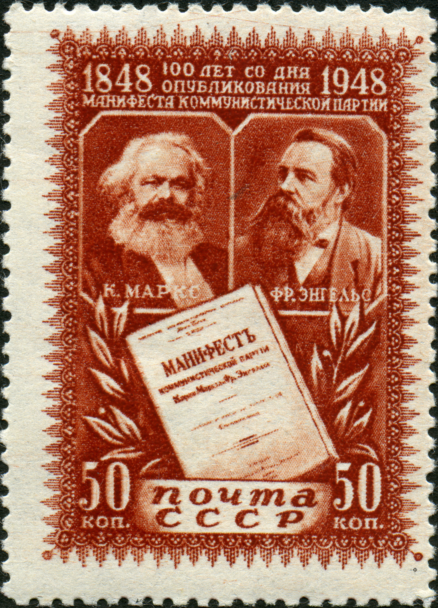 Stamp of the Soviet Union, 100th anniversary of "The Communist Manifesto" by Marx and Engels, CPA #1246.